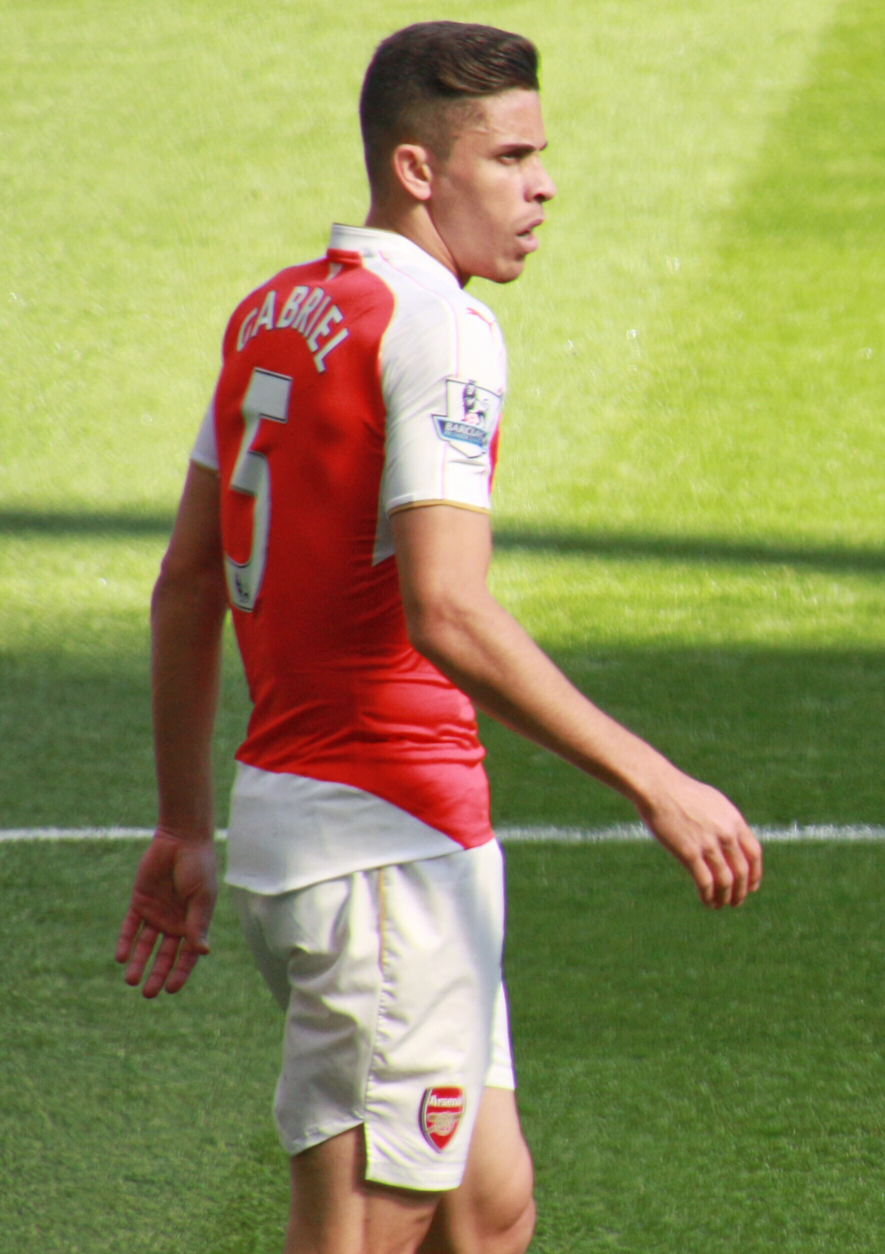 Chelsea 2 Arsenal 0